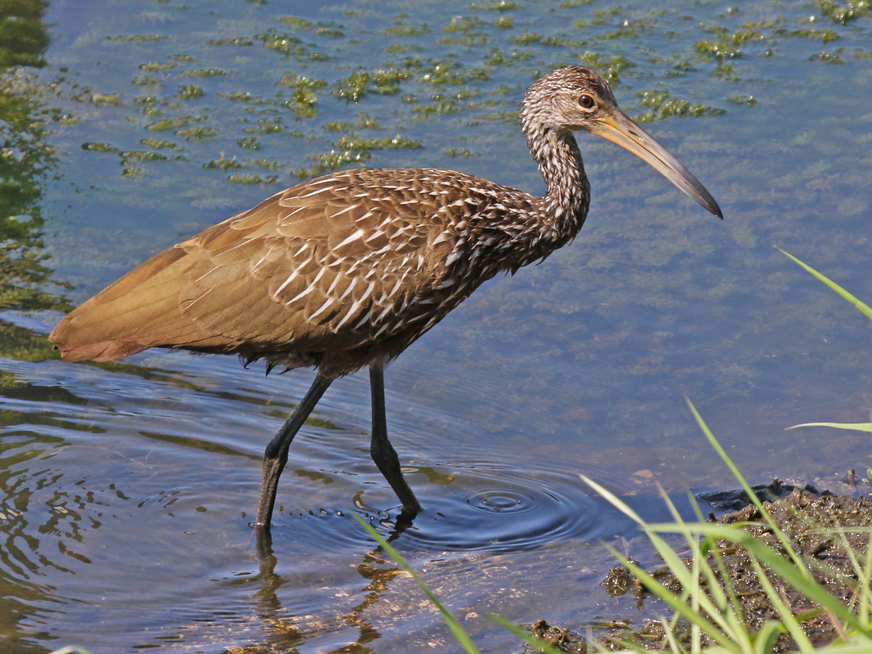 Limpkin (Aramus guarauna) photographed at lake Okeechobee in Florida